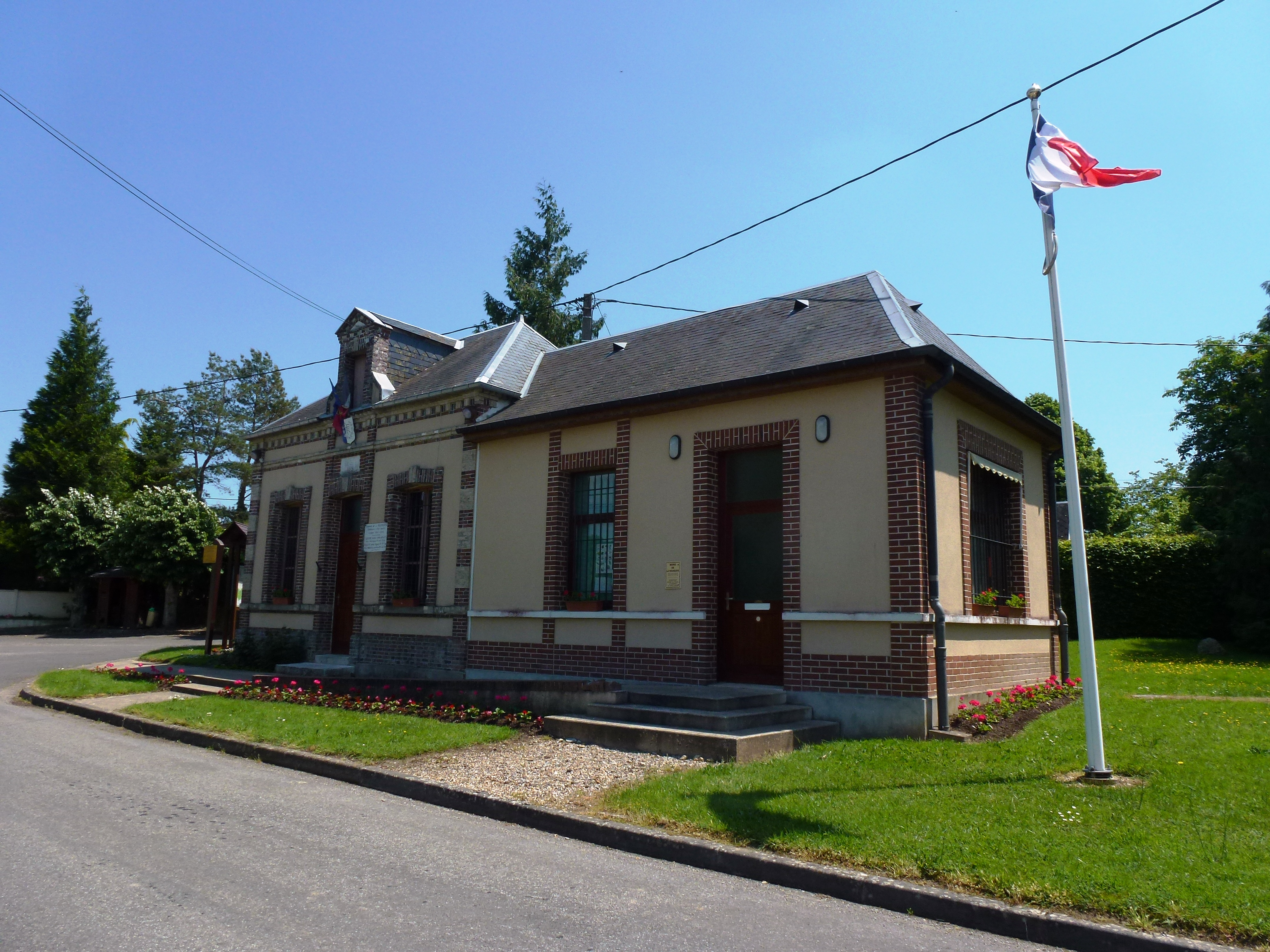 La Houssaye (Eure, Fr) mairie